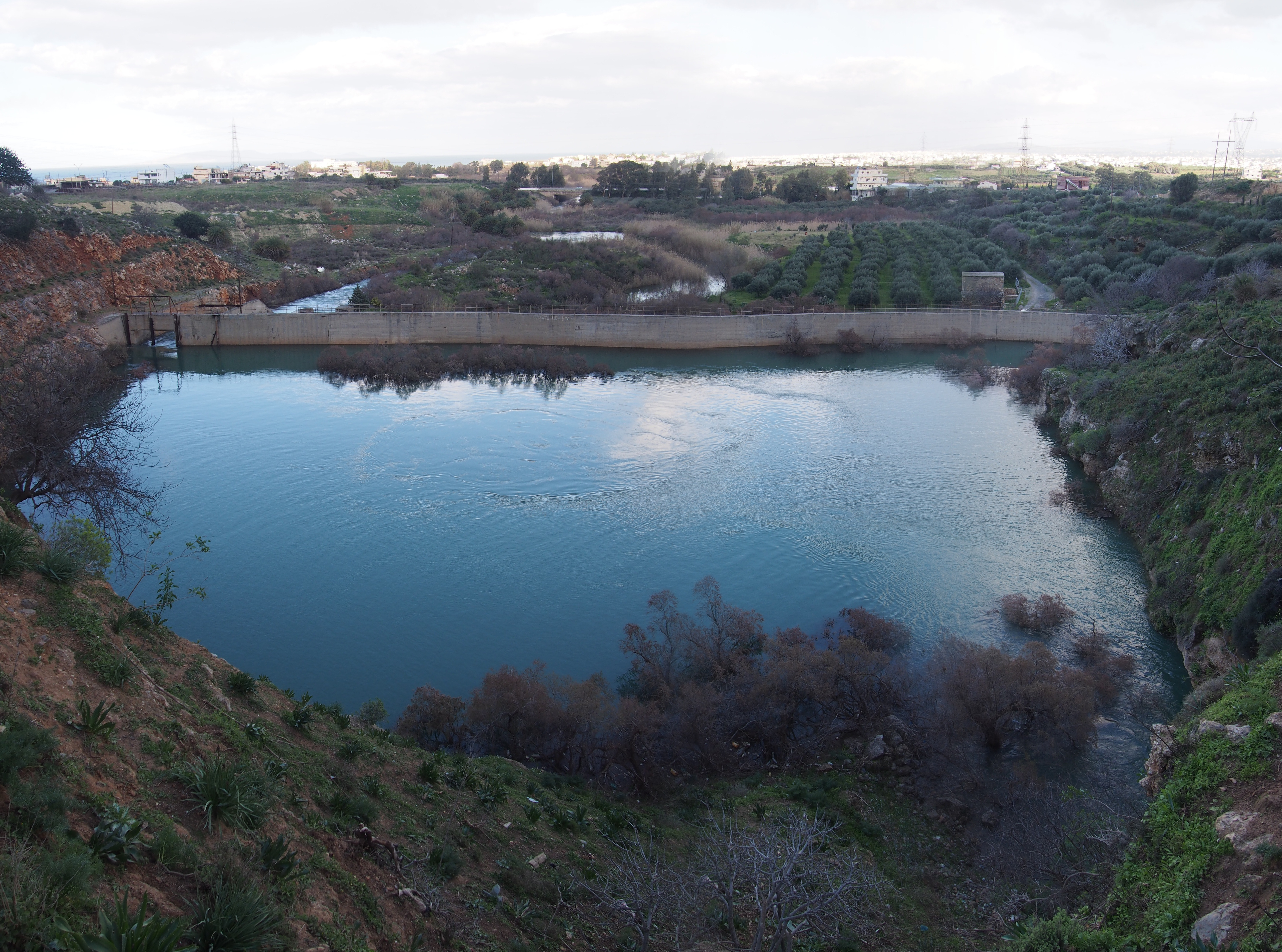 Almyros spring, near Heraklio, at the end of the winter. Almyros is the largest spring in Crete, but its water is brakish. The salinity of its water changes in invert relation with the flow of the spring, which is at its maximun early in the spring.